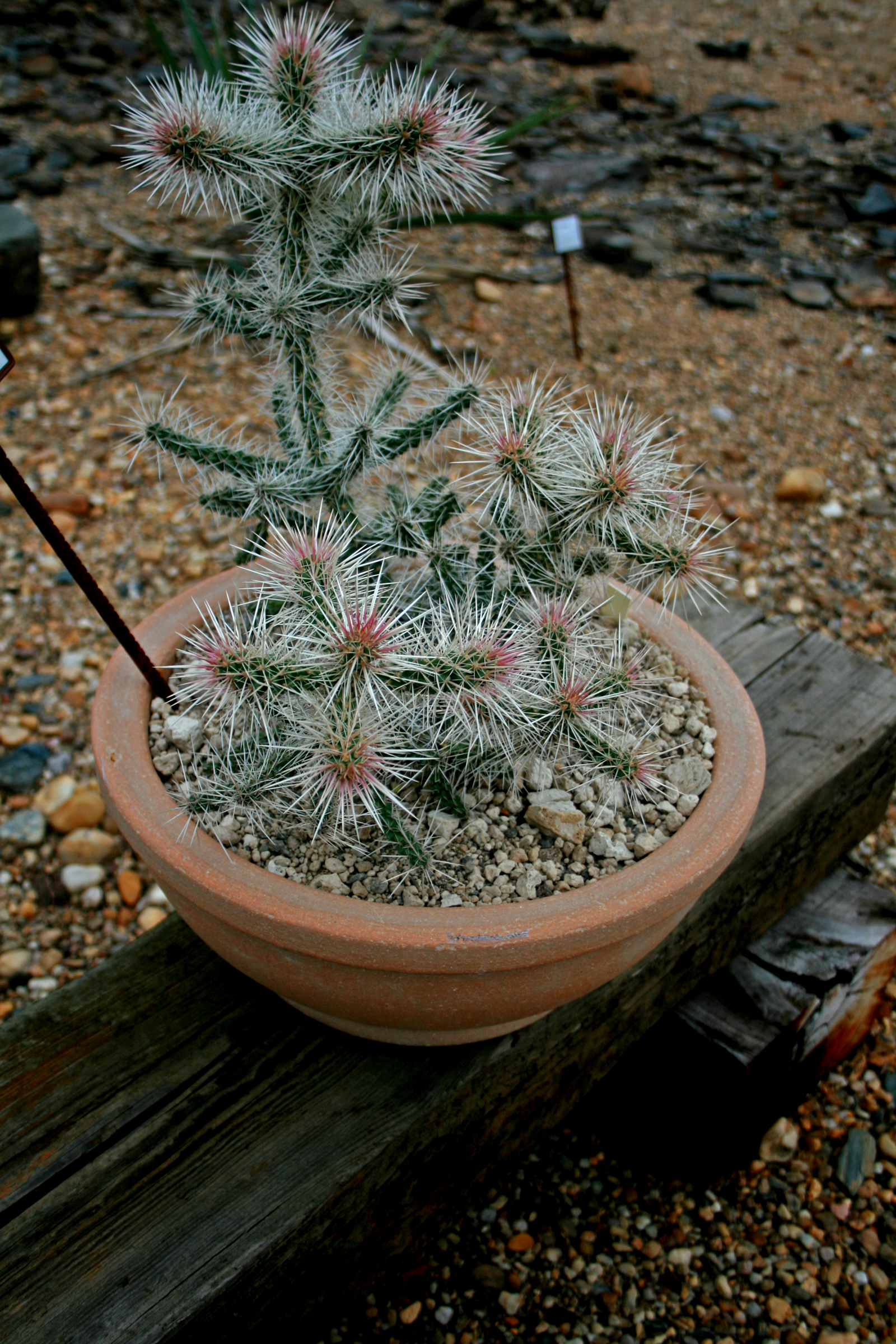 Cactus Cylindropuntia whipplei in Prague Botanic Garden, Prague, Troja